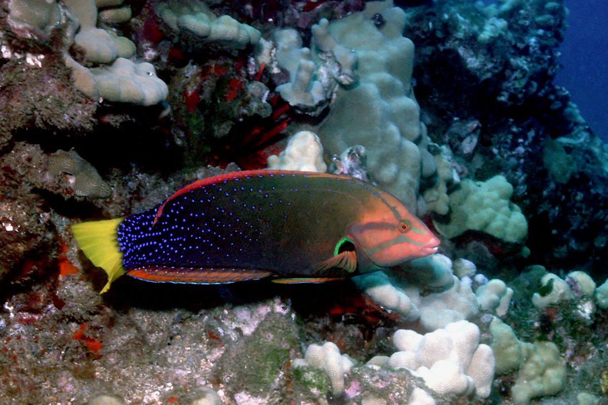 In Maui, they call this fish hinalea aki lolo. Lolo means "lazy fish" in the native language. The Hawaiian people observed that the adults spend most of their time buried in the sand with only their noses protruding. I'm glad I ran into a more ambitious one. Also known as the yellowtail wrasse (Coris gaimard)